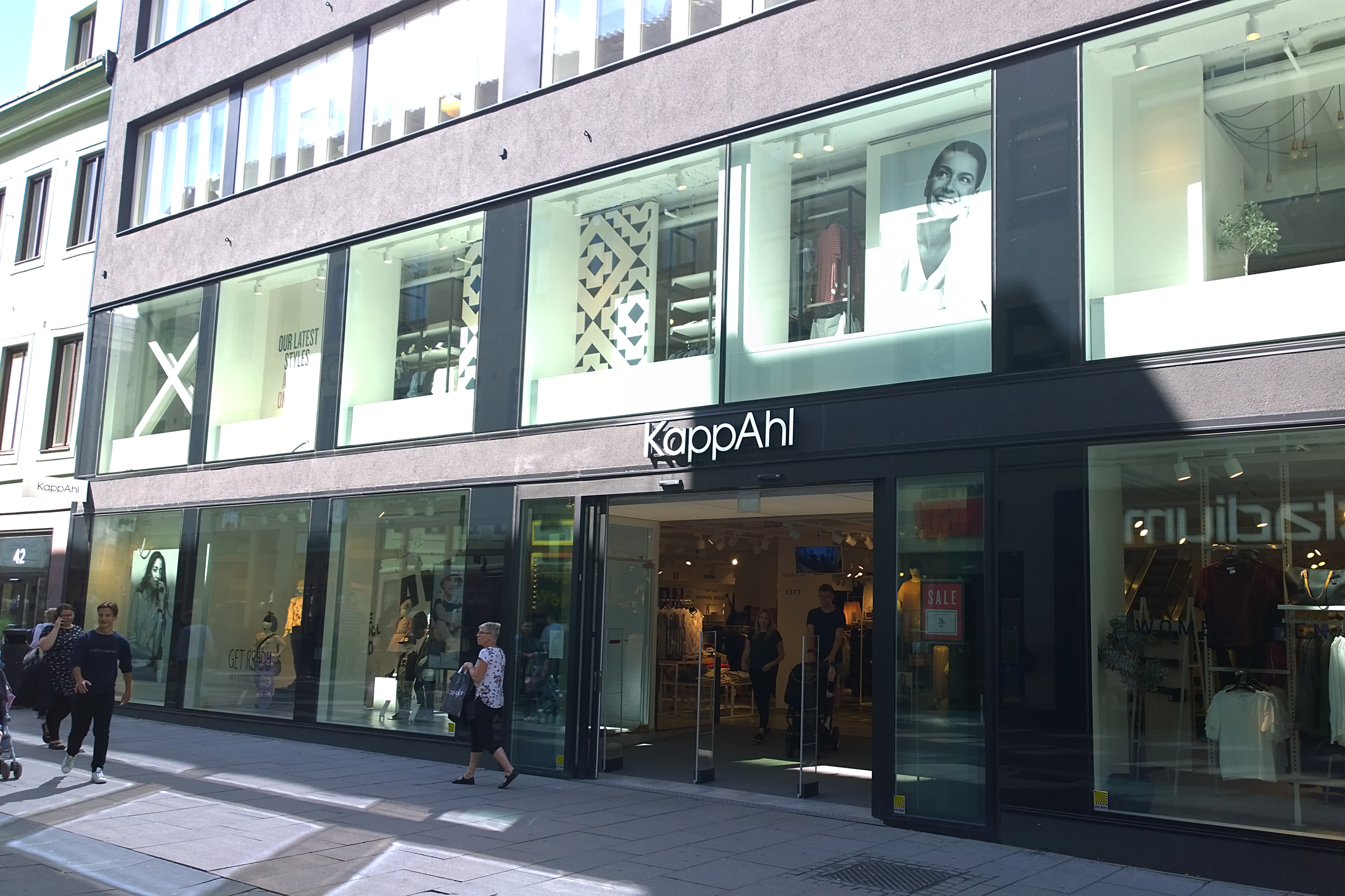 Kappahl at Kungsgatan, Goteborg